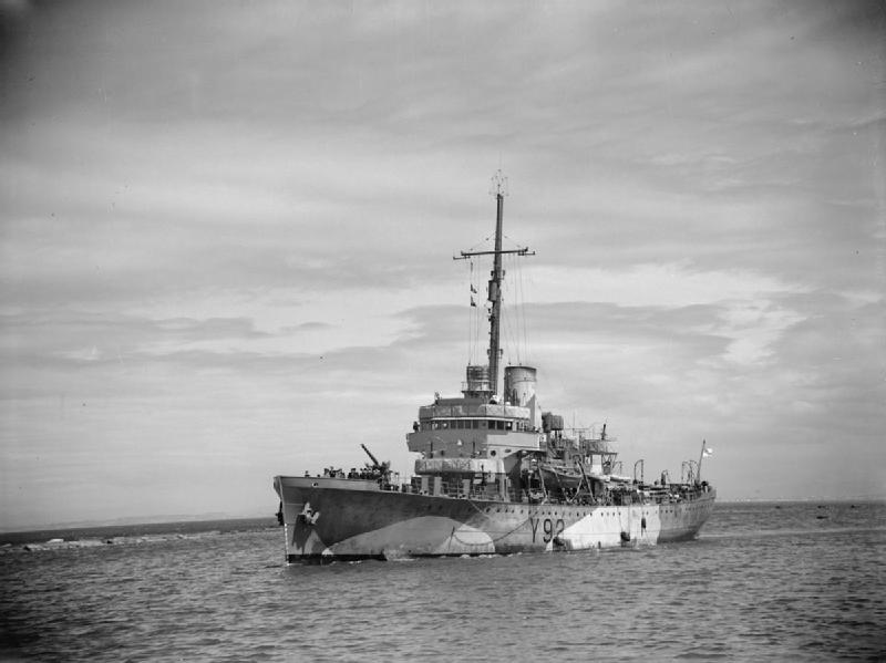 The Royal Navy during the Second World War HMS GORLESTON in Algiers harbour.